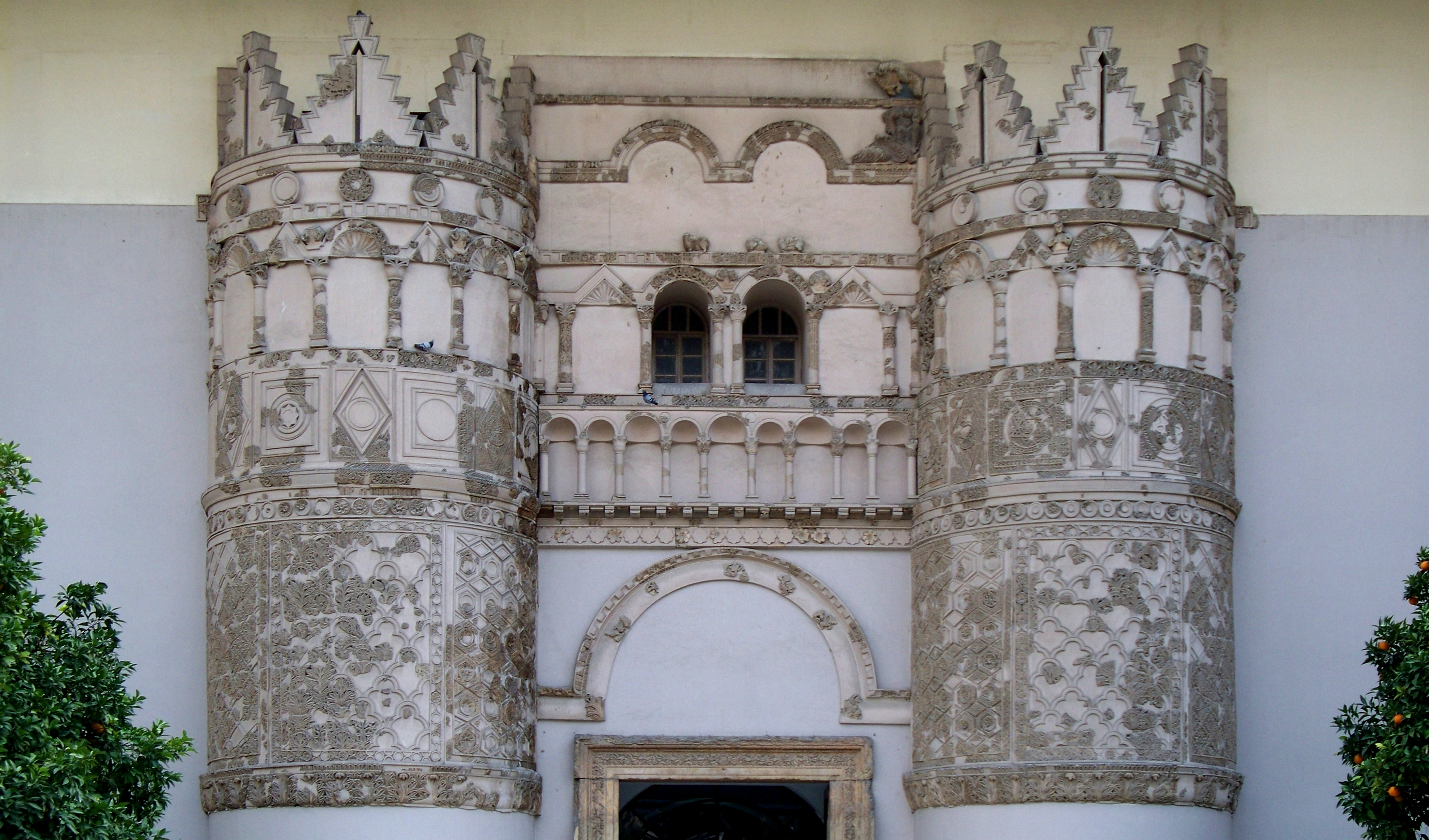 The National Museum of Damascus.